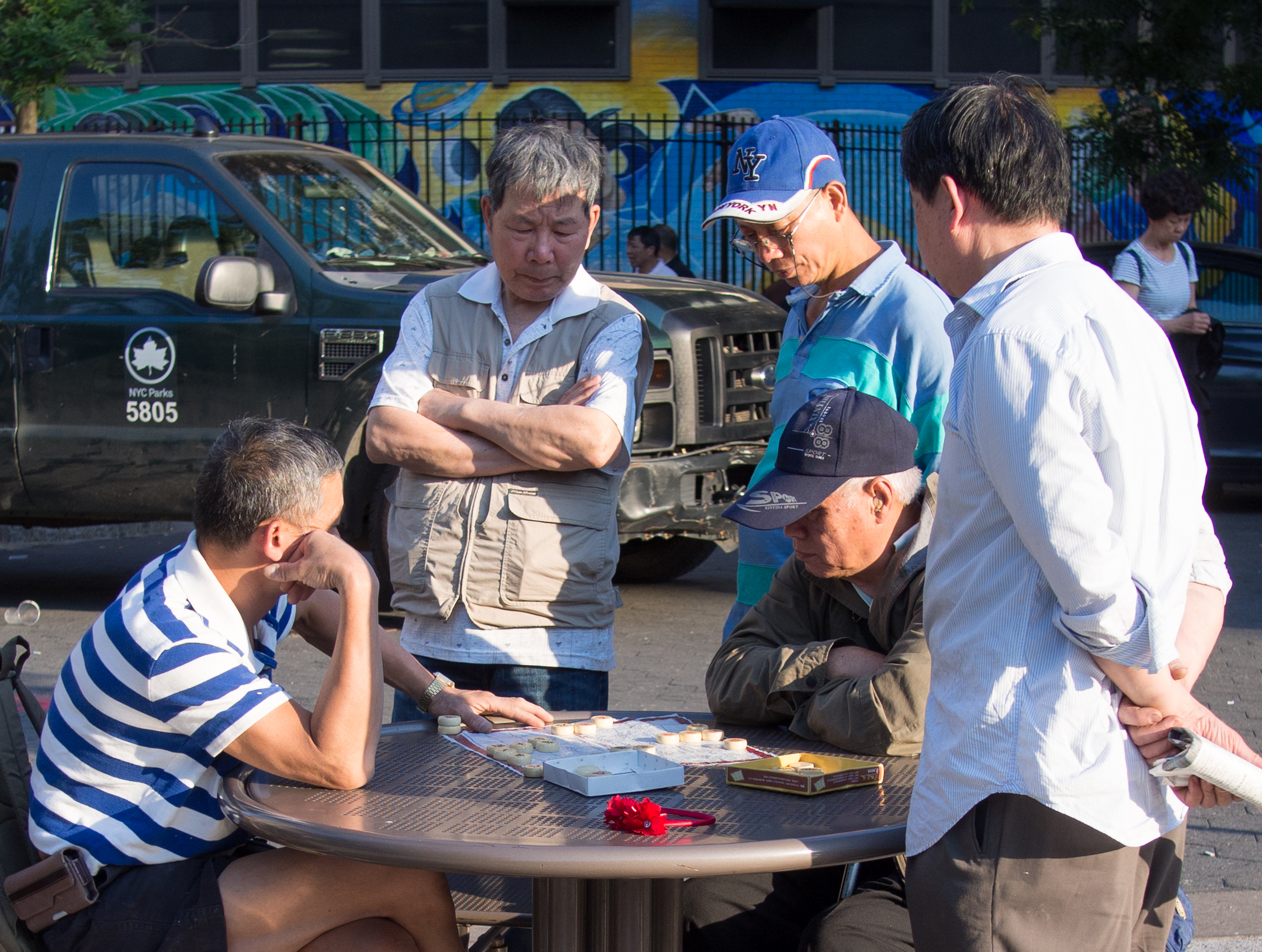 People playing xiangqi by the Houston St. Playground.